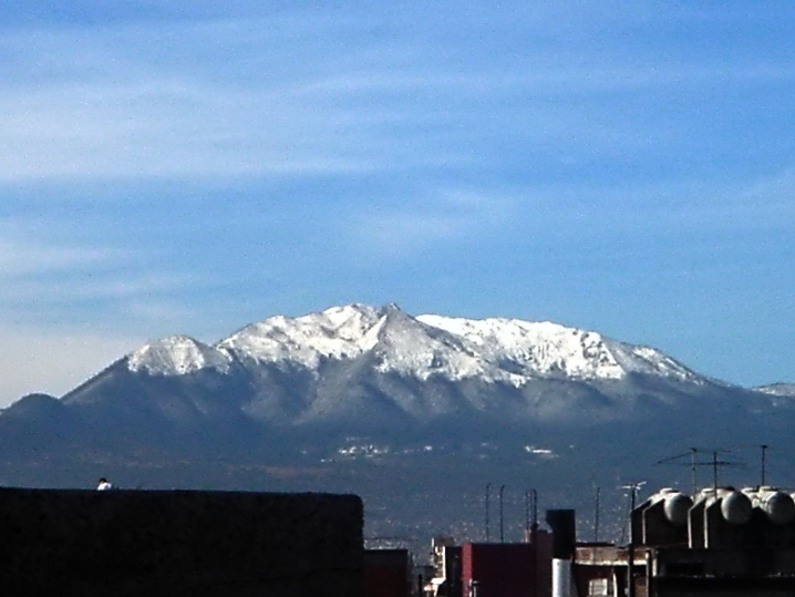 The Ajusco volcano — as seen from Colonia Narvarte in Mexico City. Part of the Trans-Mexican Volcanic Belt — a principal volcanic mountain system in central México.